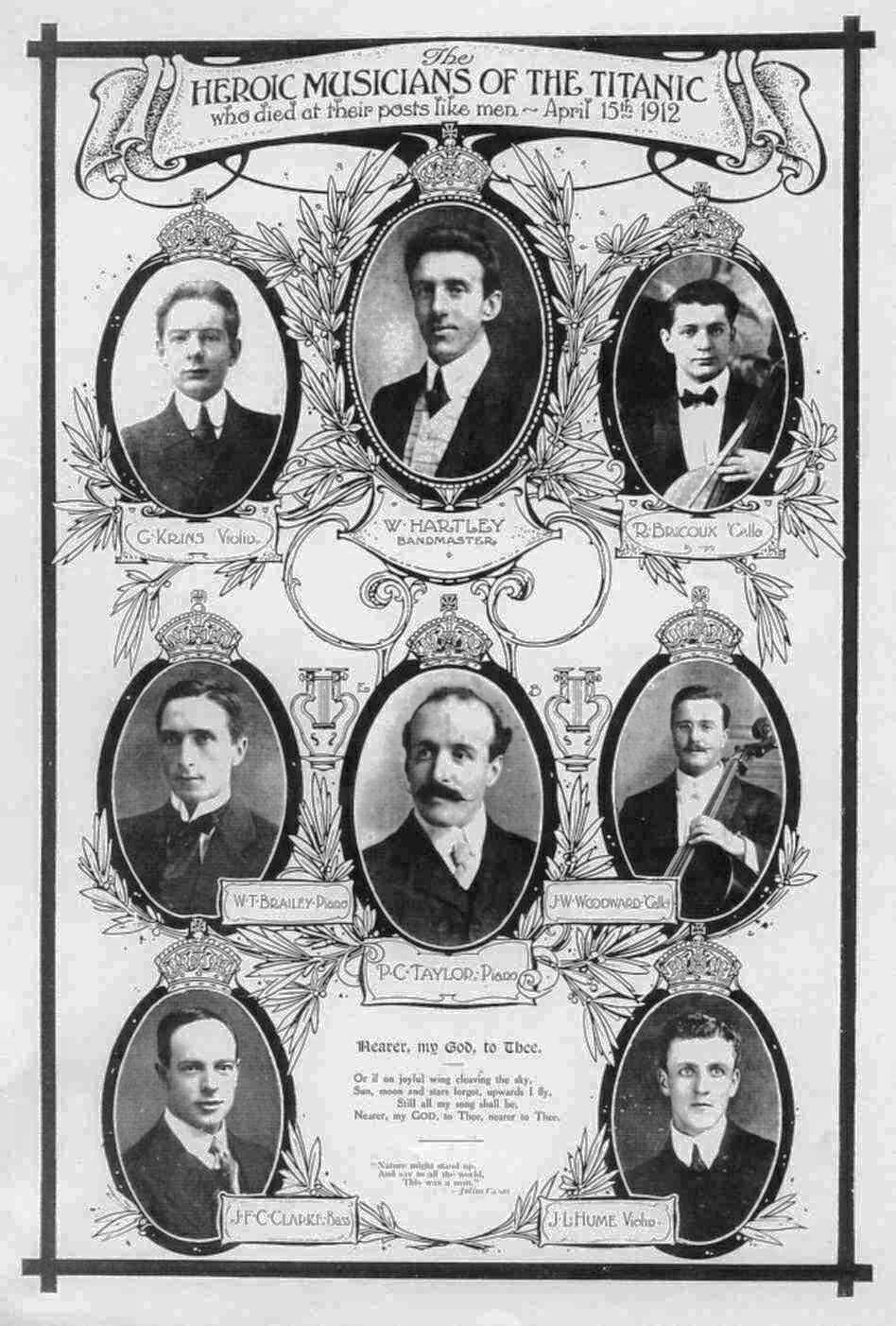 Photographs of Titanic's musicians published by the Amalgated Musicians Union after the sinking.